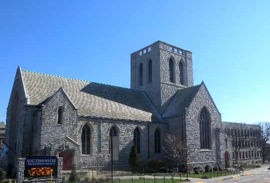 Looking northeast at Southminster Presbyterian Church on a sunny morning.